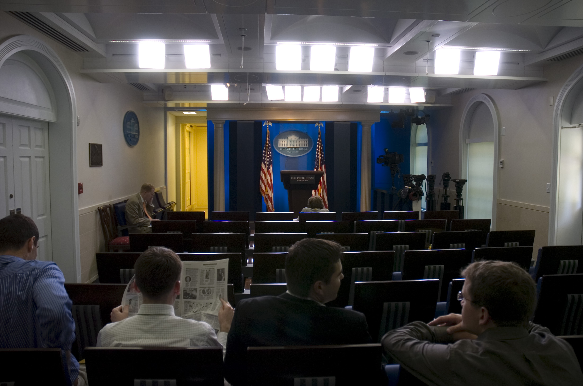 The "James Brady Press Briefing Room" a half hour before the morning gaggle. In the front rank, Helen Thomas.